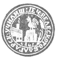 Seal of the Veles Bulgarian School 1845